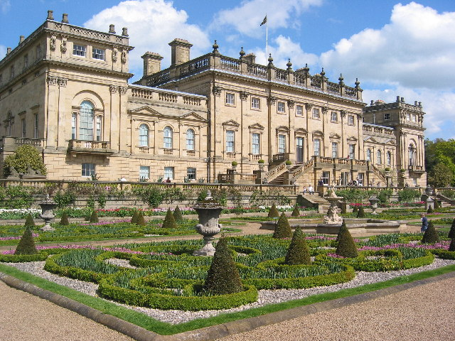 Neoclassical facade of Harewood House seen from the Terrace Garden with parterres. Located in Harewood, West Yorkshire, England.